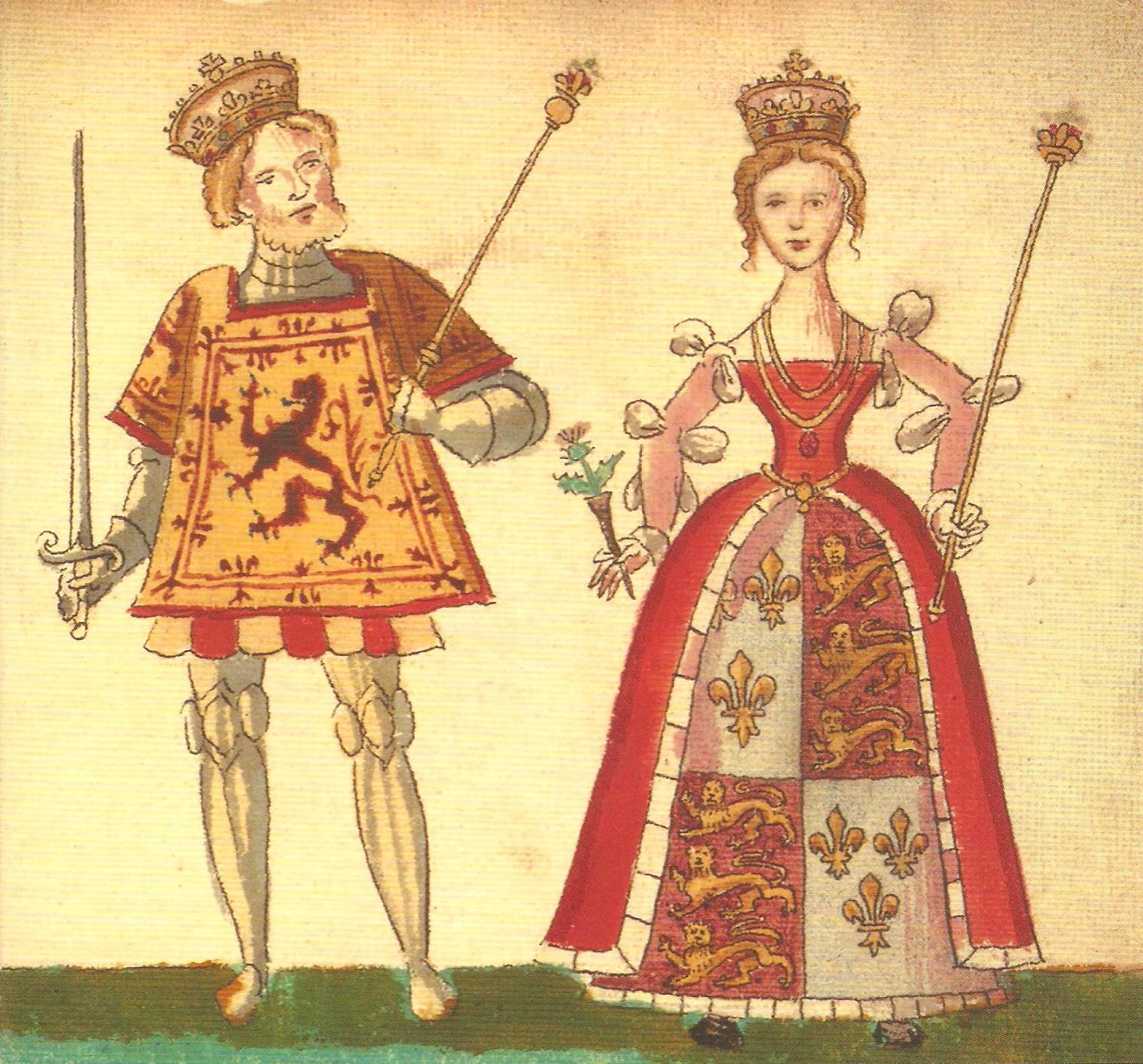 James I of Scotland with his consort Joan Beaufort, queen of Scotland. He has the coat of arms of Scotland on his tabard and is holding a sword and scepter, while she has the coat of arms of England on her clothing, and is holding a scepter and thistle.